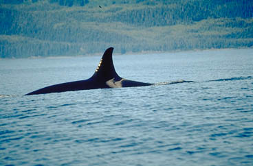 Dorsal Fin of the orca whale, thanks to the 'NOAA Photo Library'